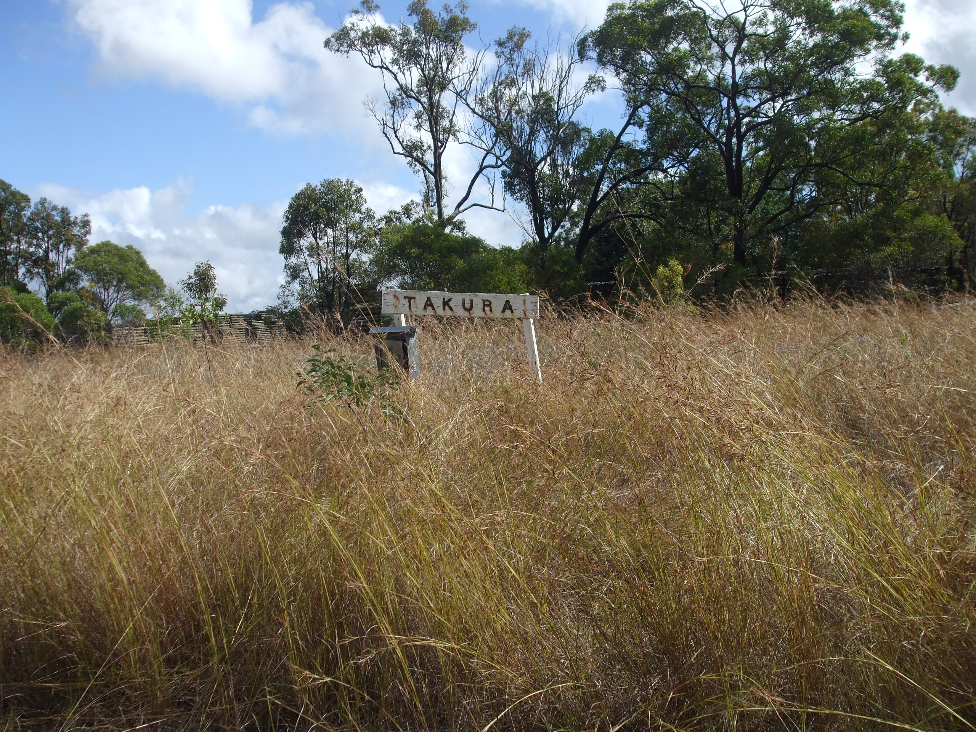 This is Takura station's nameboard, on the closed Hervey Bay railway line. The rest of the railway line leadng into Hervey Bay has been removed.